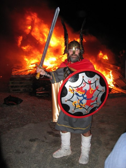 Guizer Jarl at Norwick Up Helly Aa